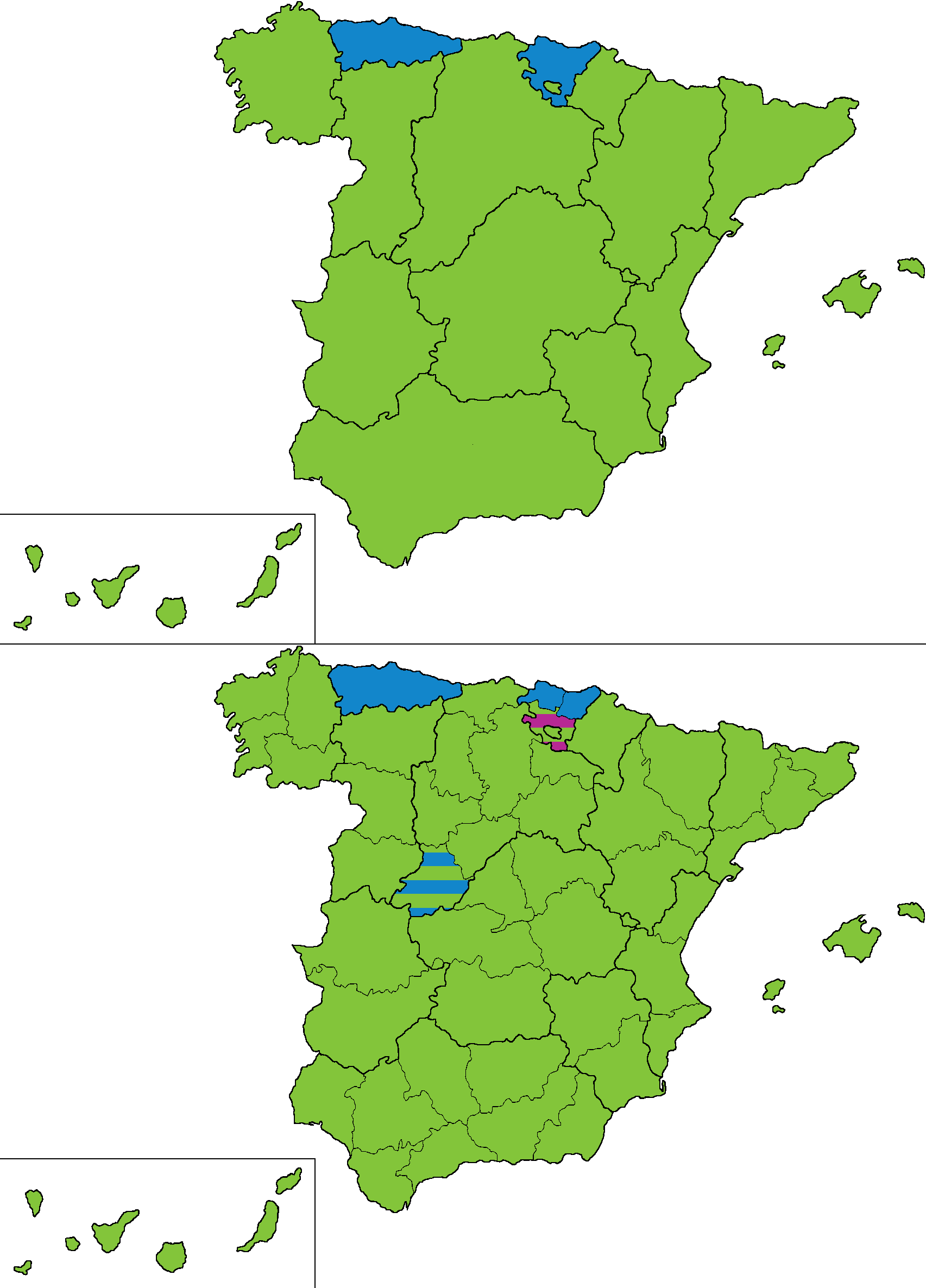 Most voted party in the 1886 Spanish Congress of Deputies election by regions and provinces.